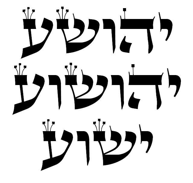 The names Joshua and Jeshua in Hebrew writing with "taggim"